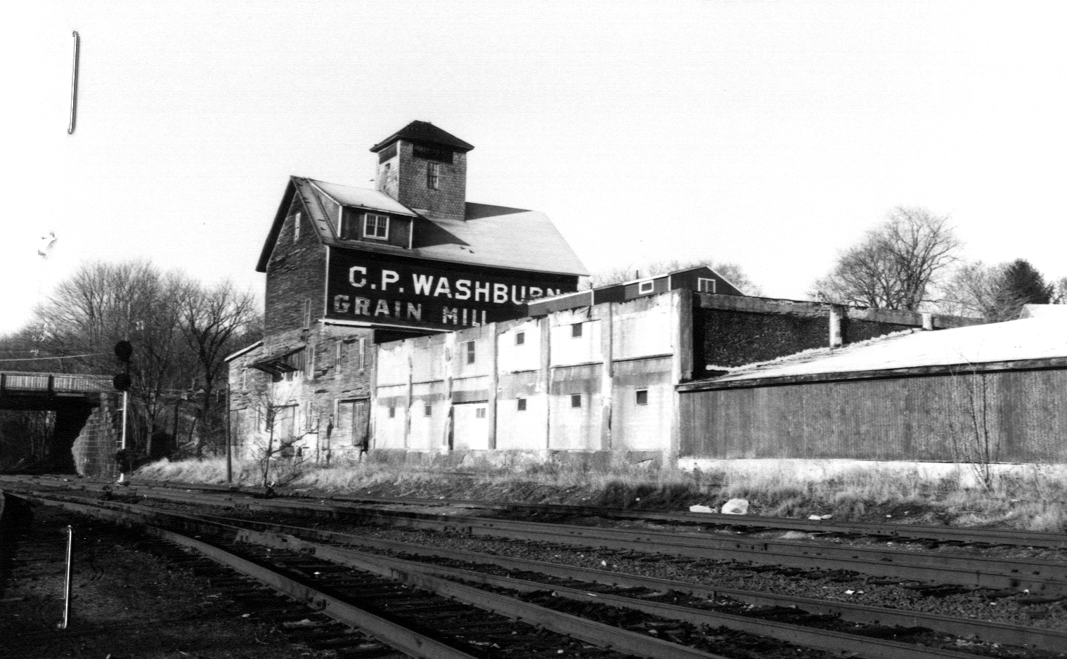 C.P. Washburn Grain Mill, Middleborough, Massachusetts. Demolished.